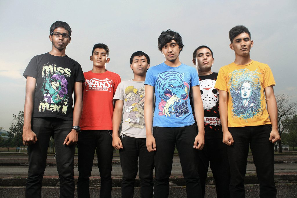 lineup